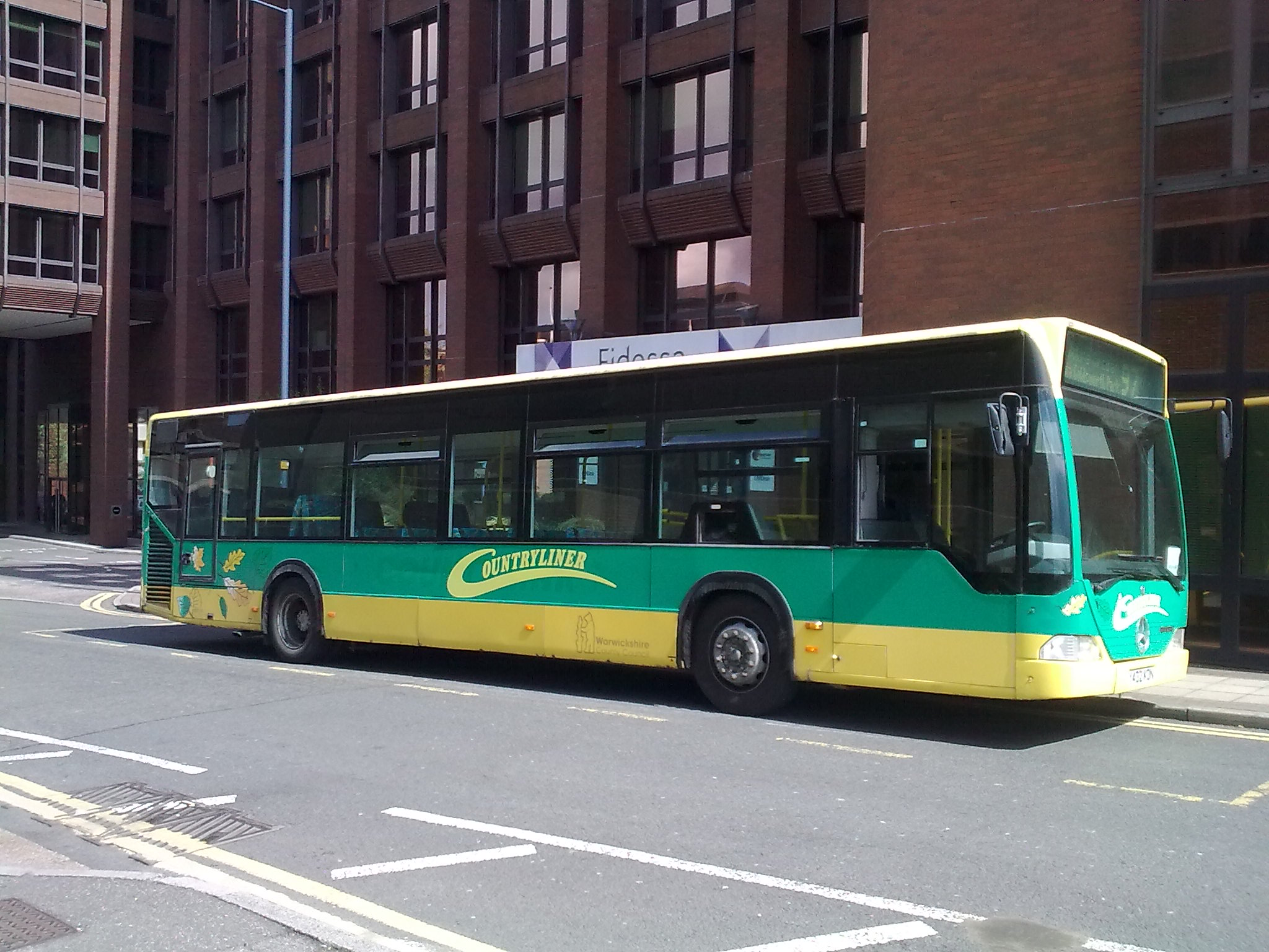 Countryliner Coaches MCB432 (X432 KON), a Mercedes-Benz Citaro, in Duke Street, Woking, laying over between duties. It was new to and came from Johnsons, Henley-in-Arden. It was yet to painted into Countryliner livery and was still wearing the Warwickshire County Links livery when seen. Warwickshire CC state that some routes put out to tender must be run with buses in this livery, rather than the operator's own livery. In this photo, you can see where the Warwickshire County Council vinyls have been taken off. You can also see it is an early example of a UK Citaro, as the engine grill has a pointed top. Most Citaros have a squared off one.